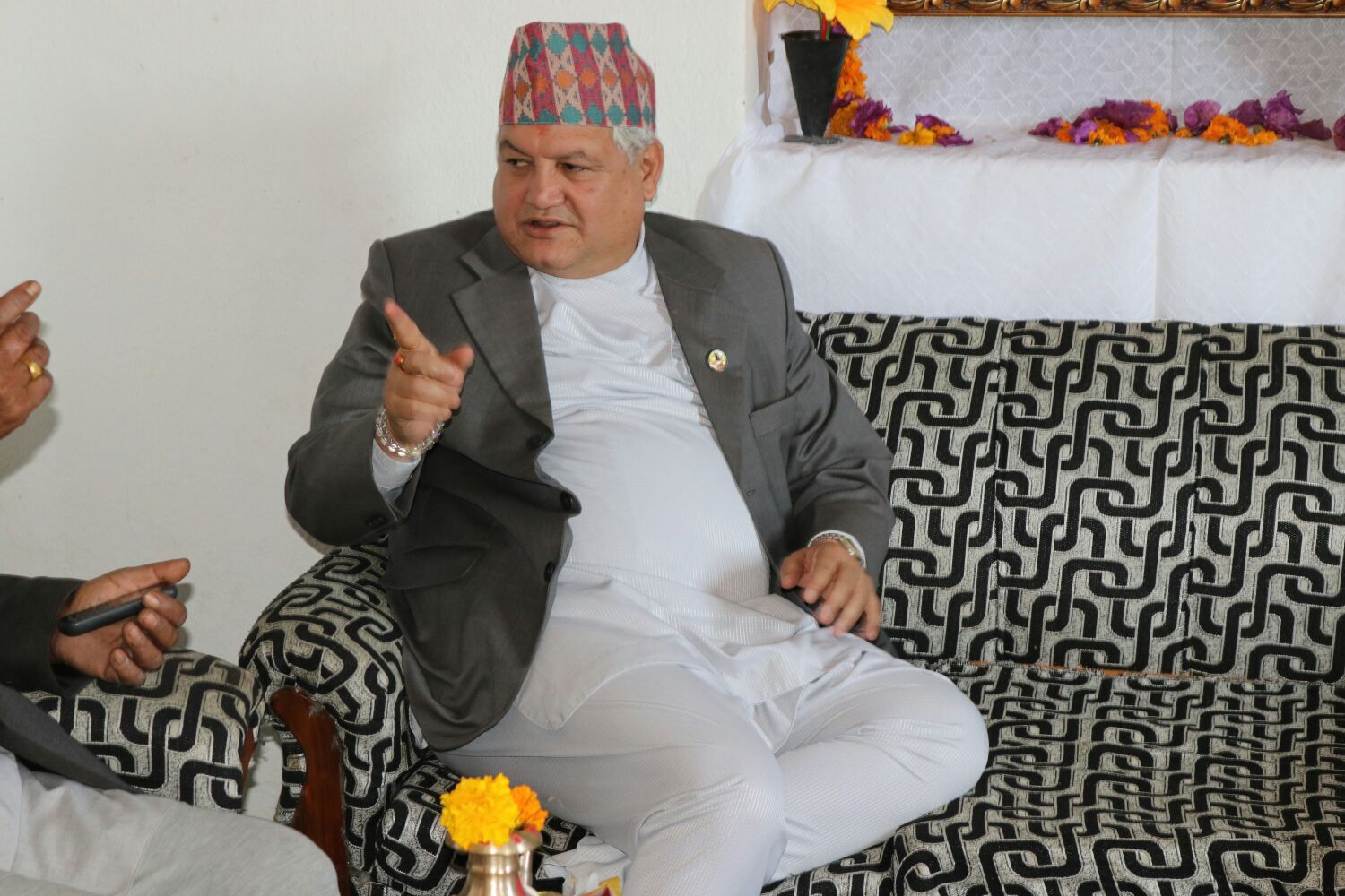 Sunil Bahadur Thapa at his home.